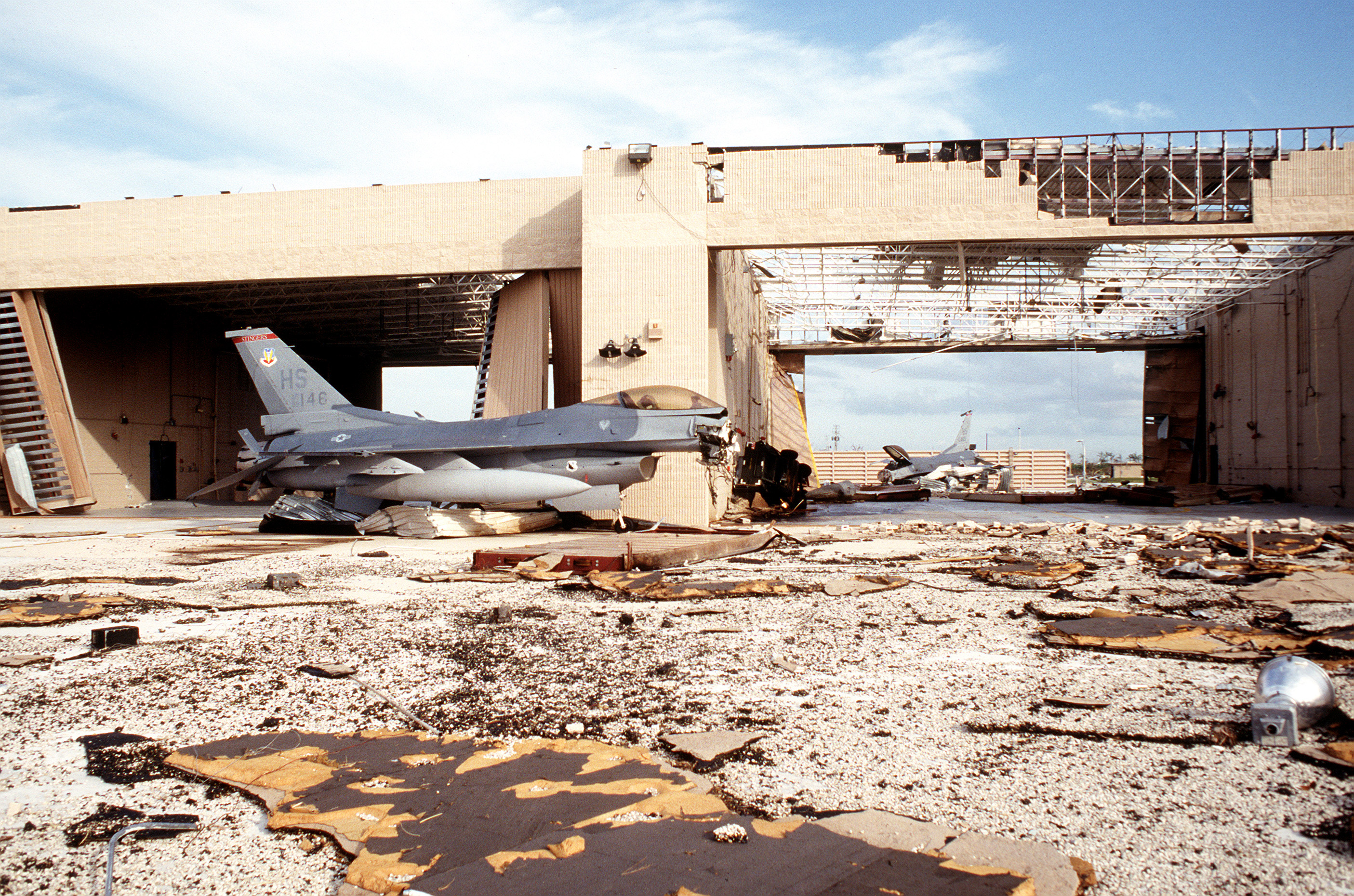 Homestead AFB after Hurricane Andrew serverly damaged the base on 27 August 1992. The damage to the base was extensive and the USAF reassigned the 31st Fighter wing, the base being placed in repair status for the next two years before it was placed back on operational status. Closest aircraft is 307th Fighter Squadron F-16C #89-2146 and the F-16C in the background is 88-0465 which was repaired and returned to flying status. 89-2146 was repaired afterwards but not to flying status, becoming a GF-16C ground trainer at Sheppard AFB, Texas [Photo by MSgt Don Wetterman]